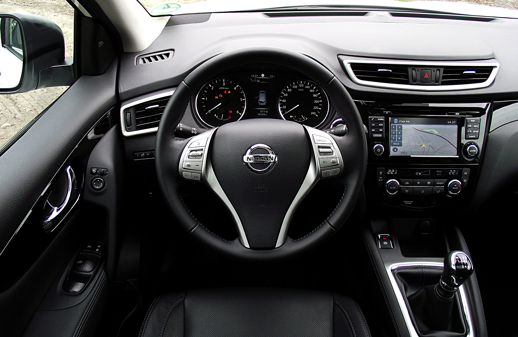 Nissan Qashqai 1.6 dCi ALL-MODE 4x4i Tekna Interior